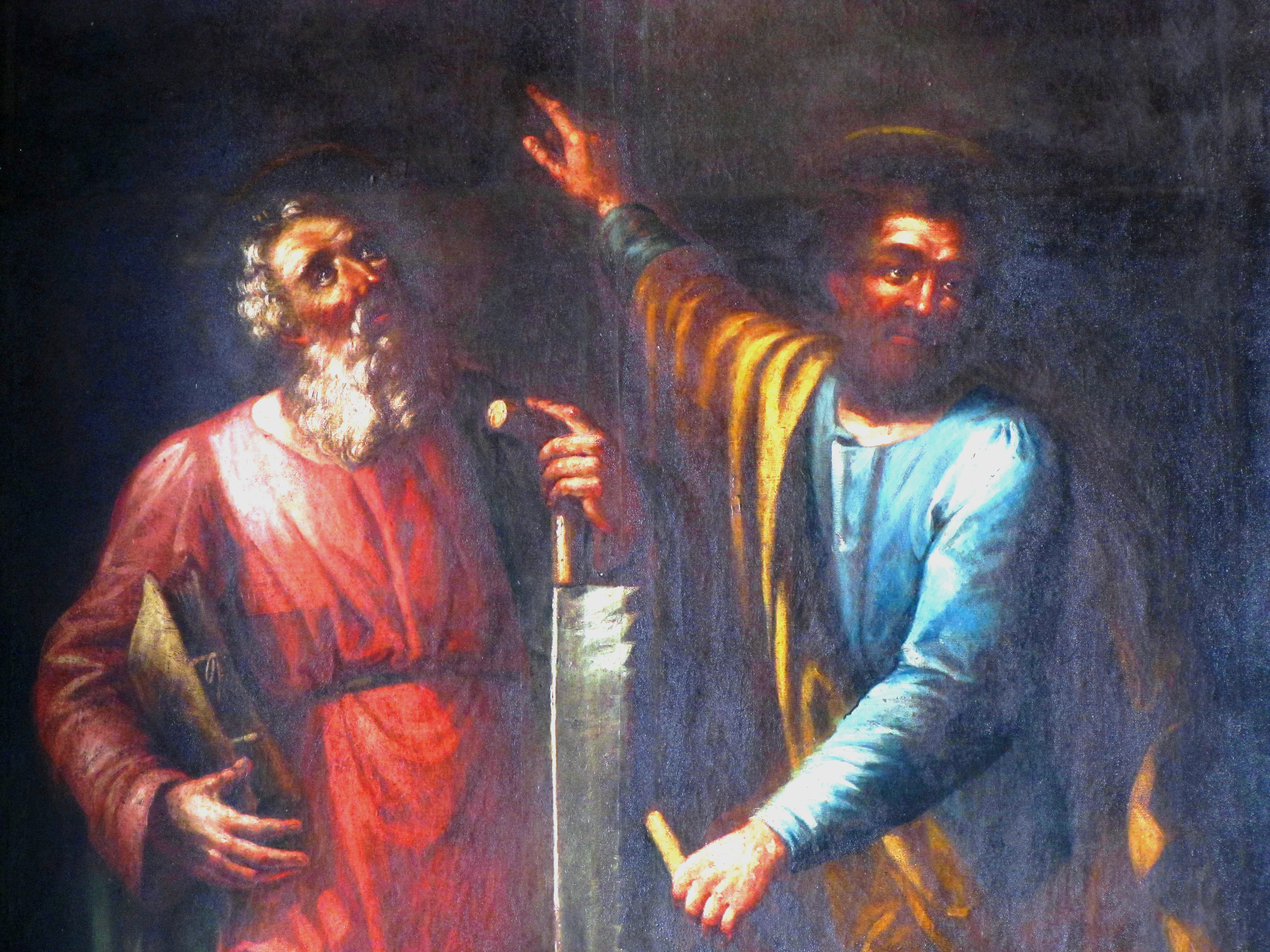 Alsace, Bas-Rhin, Ottrott, Église (IA00075575). Maître-autel "Saints-Simon-et-Jude" (XVIIIe-XIXe): Tableau (Inconnu, huile sur toile, XVIIIe). This object is classé Monument Historique in the base Palissy, database of the French furniture patrimony of the French ministry of culture, under the references PM67000683 and IM67001070.